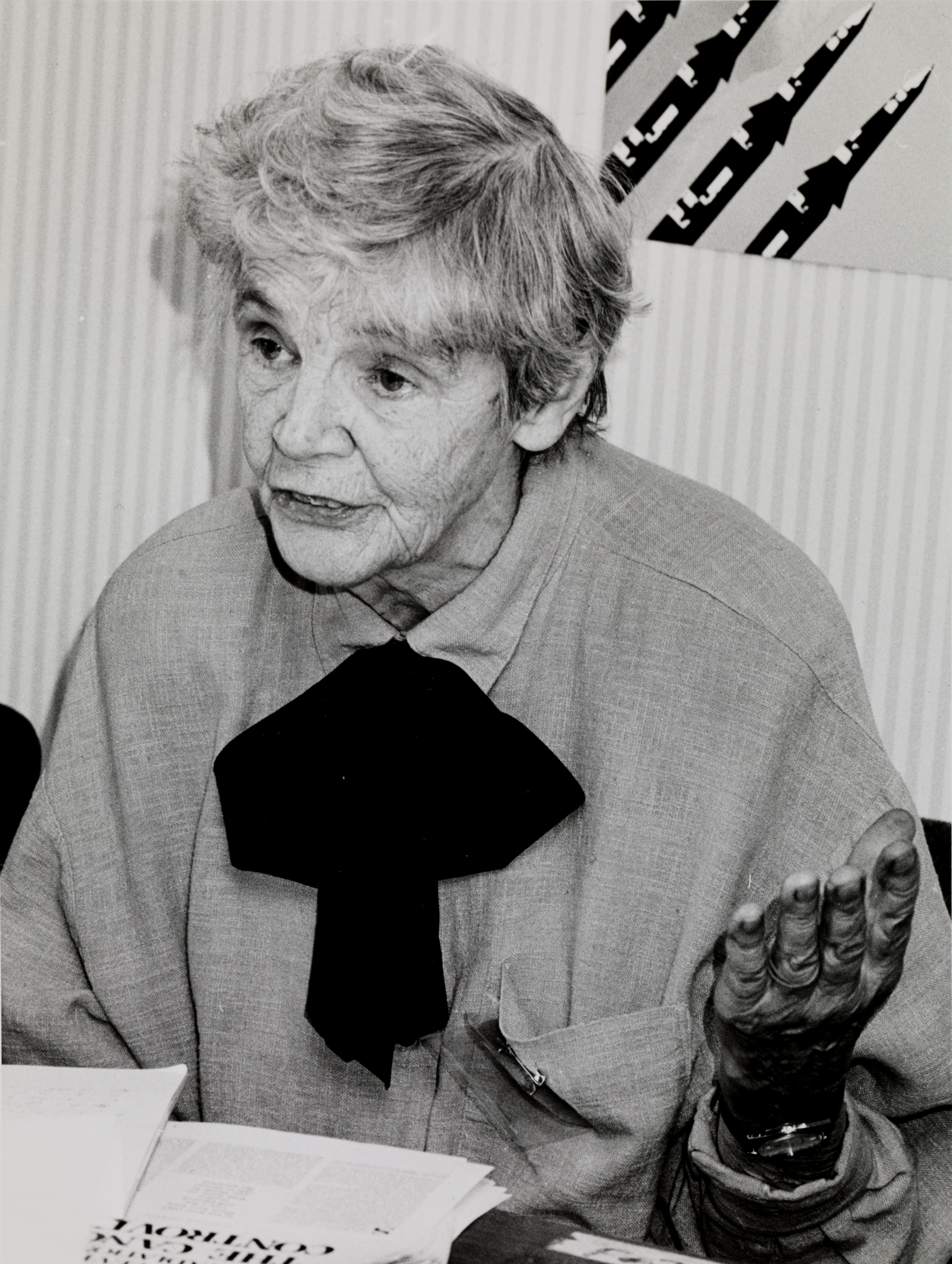 Photograph of Dr Alice Stewart at Fifth IPPNW European Congress, Coventry, 1990. Medact was formed in 1992 as a merger between the Medical Campaign Against Nuclear Weapons (MCANW) and the Medical Association for the Prevention of War (MAPW). Archives & Manuscripts